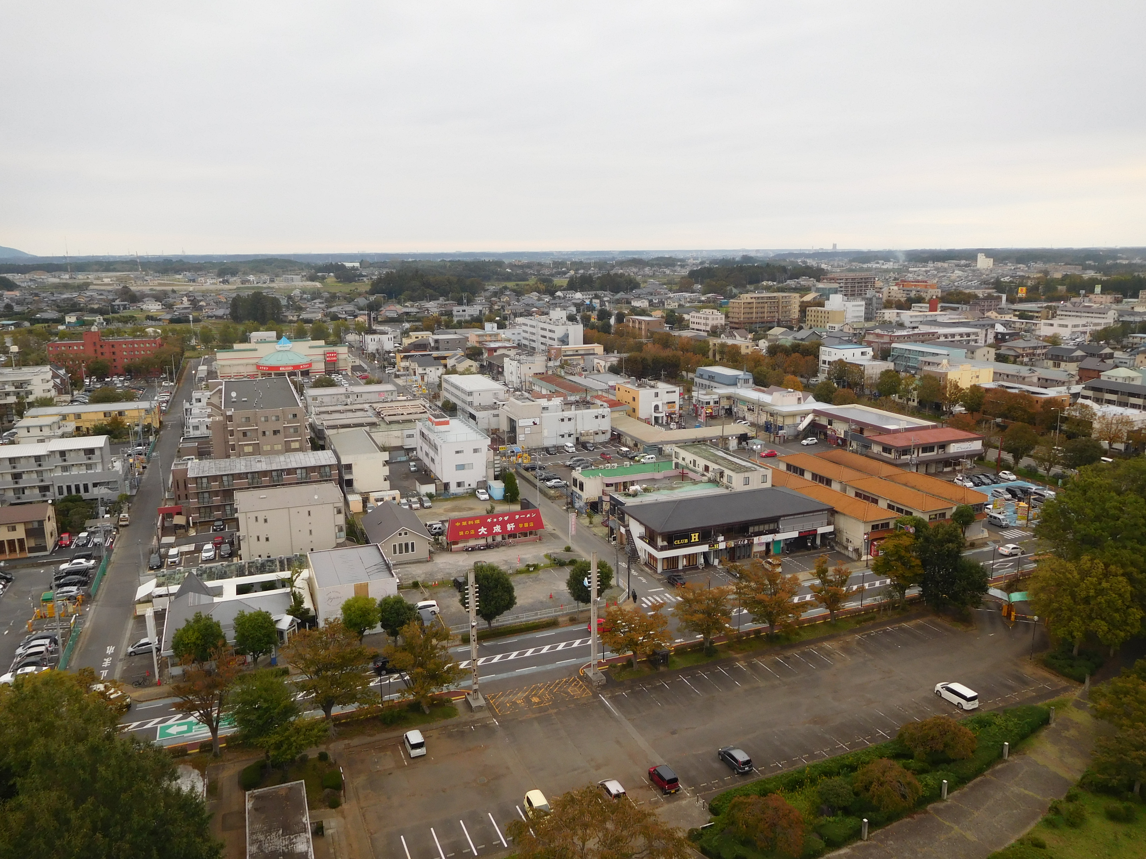 This is a landscape of Amakubo 1 chome, Tsukuba city, Ibaraki prefecture, Japan.